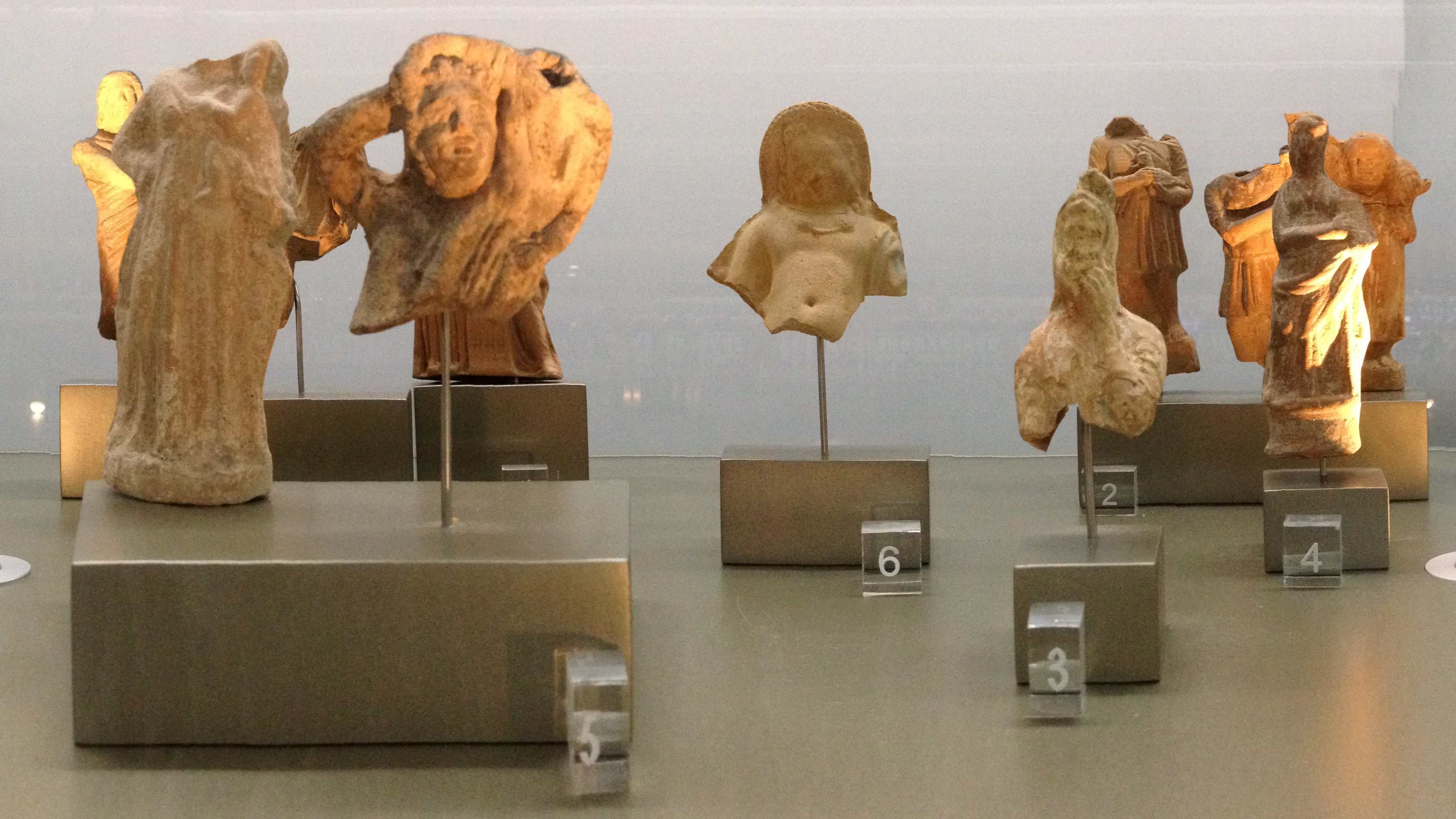 "These figurines represent young musicians and a dancer (1), deities and bearers of offerings (duck, ram, cornucopia) (2), a bearded man (3), a woman draped in a chiton (4), persons carrying a child on their shoulders (5) and an Eros wearing a necklace (6). Uncovered in Kharayeb (Tyre area) and in Tyre, they are dated to the Hellenistic Period (333-64 B.C.)." From the collection of the National Museum of Beirut, Lebanon, on display at the International Airport of Beirut.